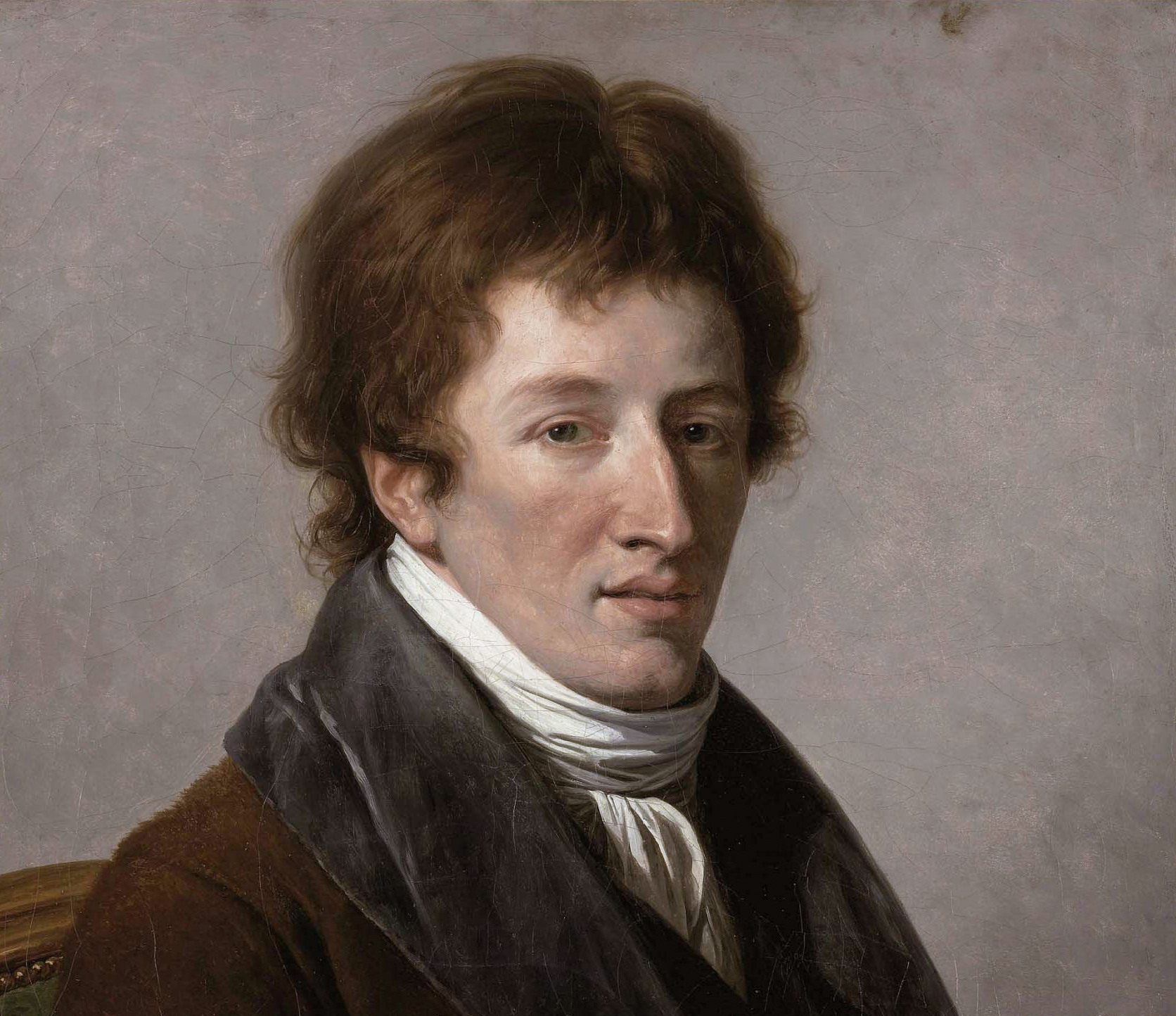 Baron Georges Cuvier